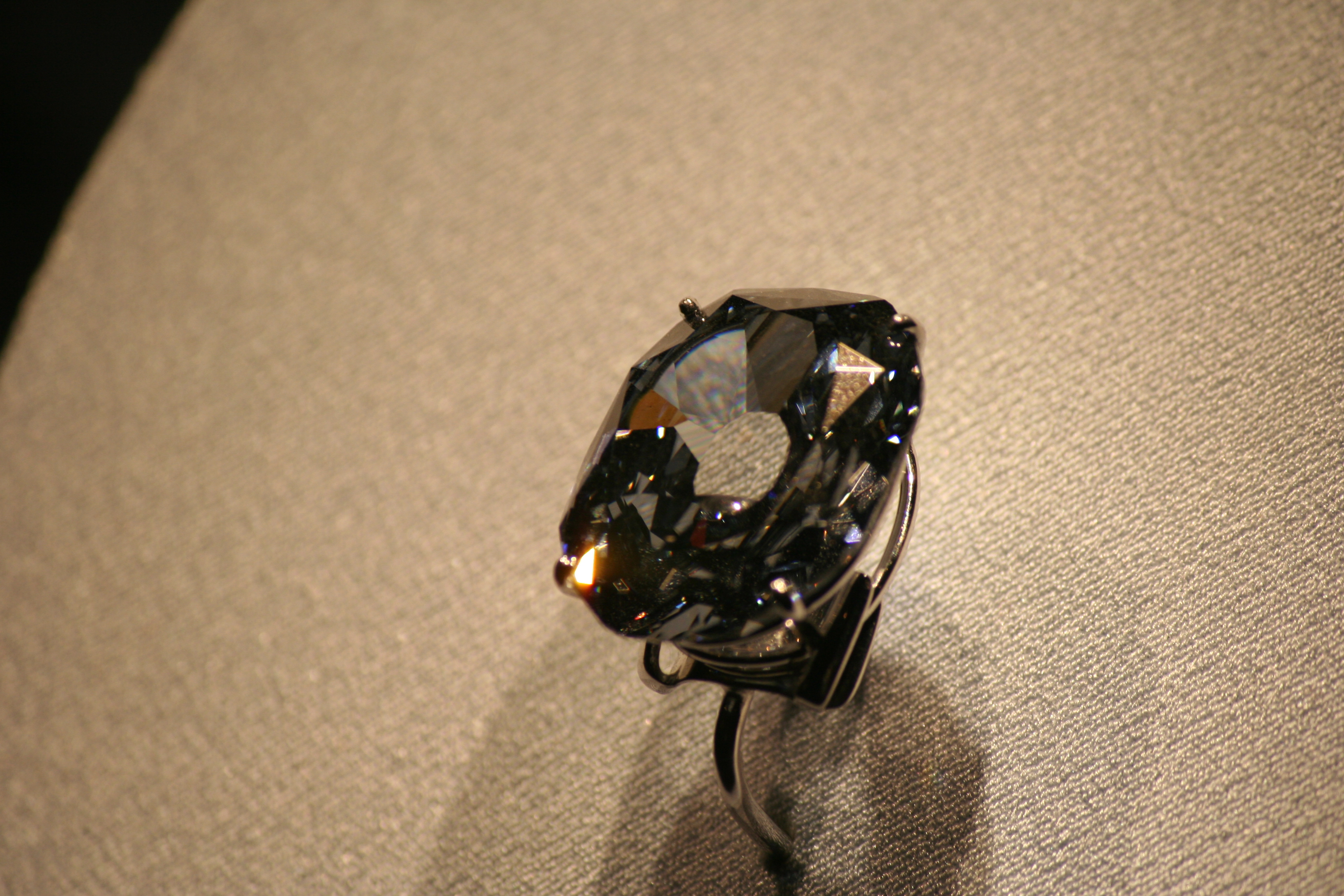 Wittelsbach-Graff Diamond after recut